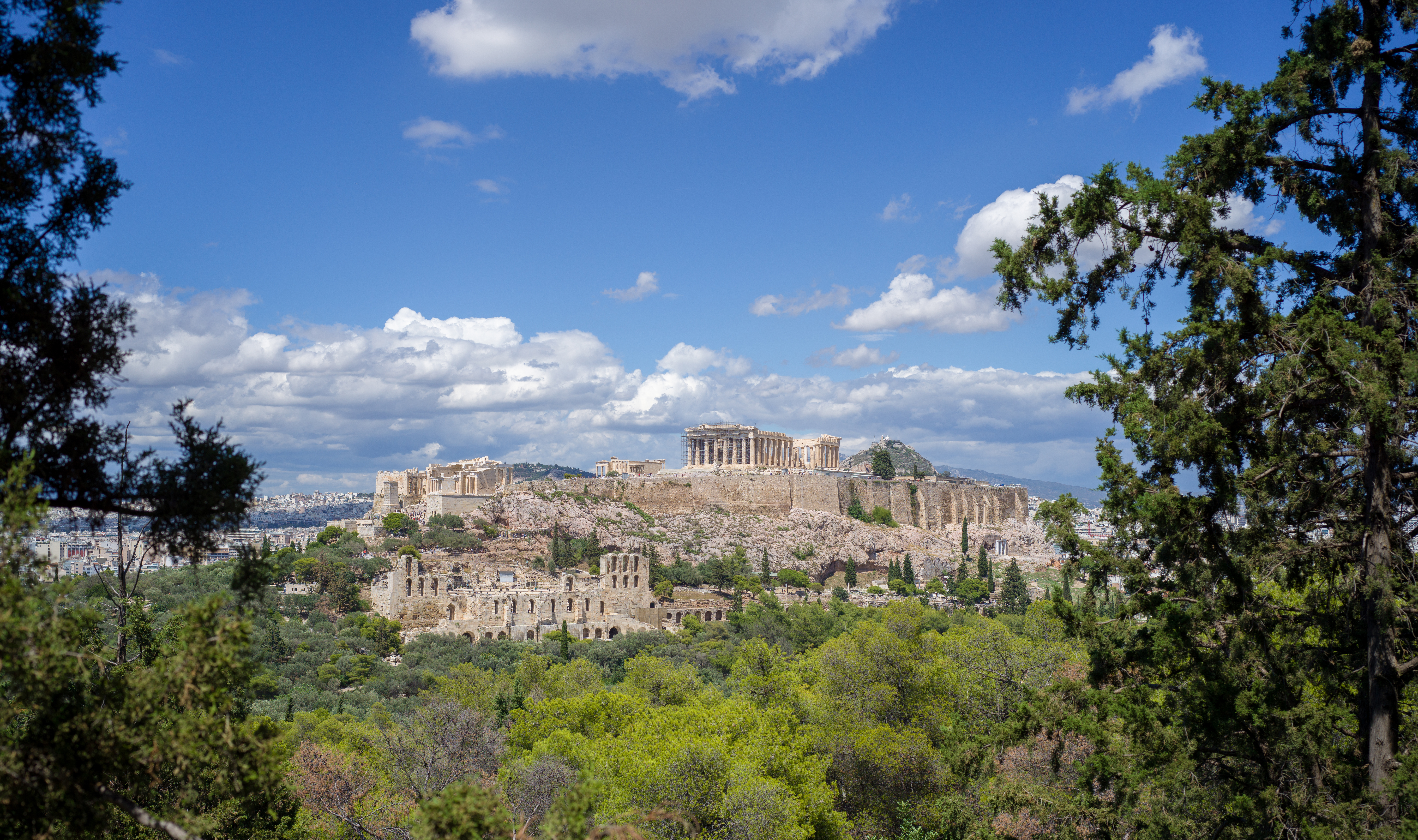 The Acropolis in Athens - View from the Filopappou Hill or Hill of the Muses.